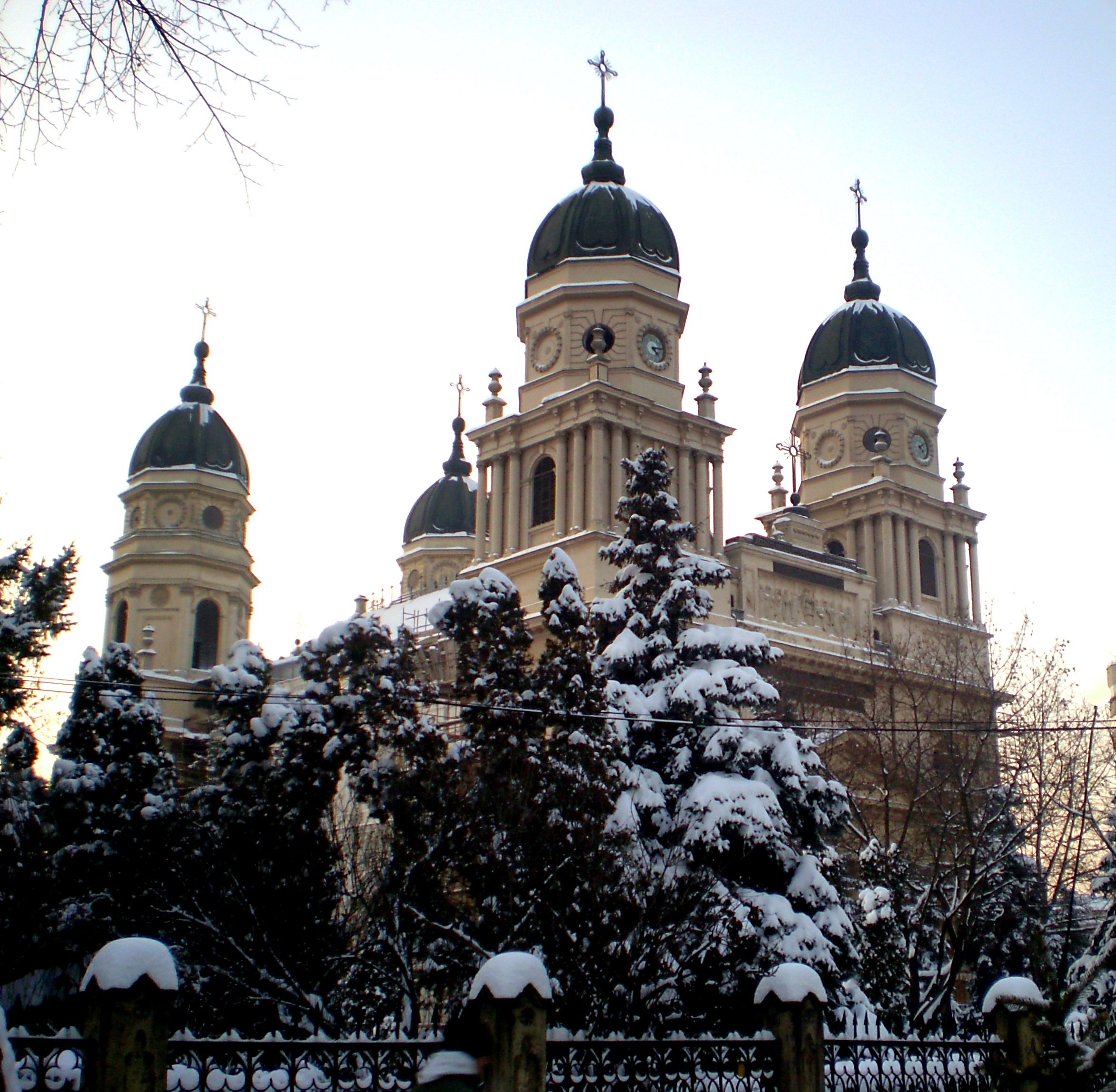 Iaşi , Metropolitan Orthodox Cathedral , Iaşi ,Romania